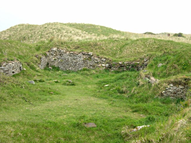 Remains of St Piran's Old Church